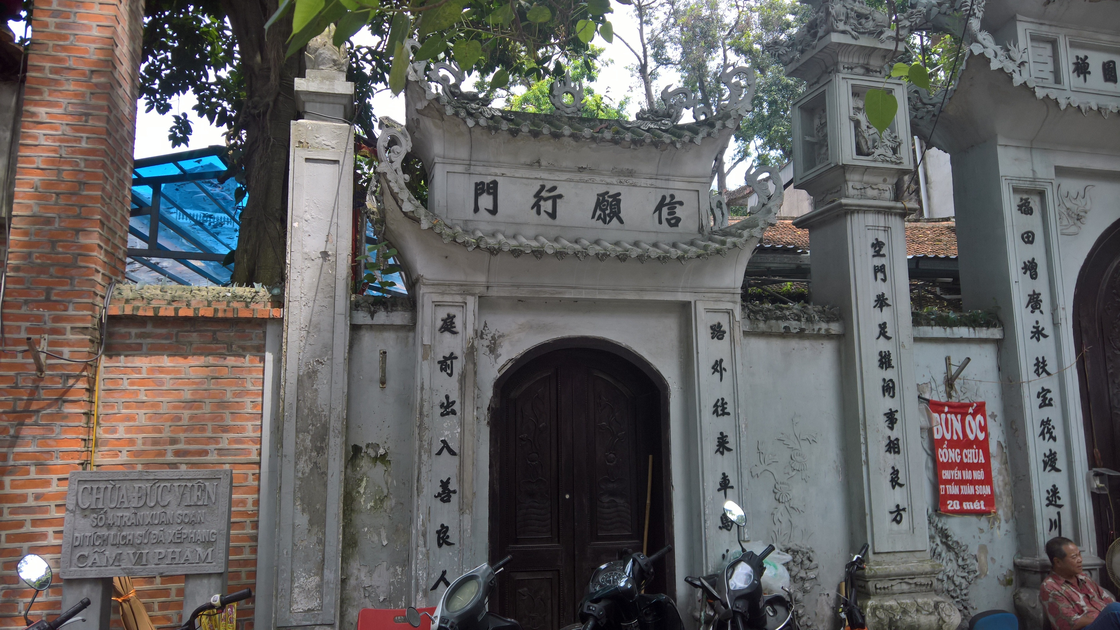 A Buddhist temple at Lò Đức street, Hai Bà Trung district.